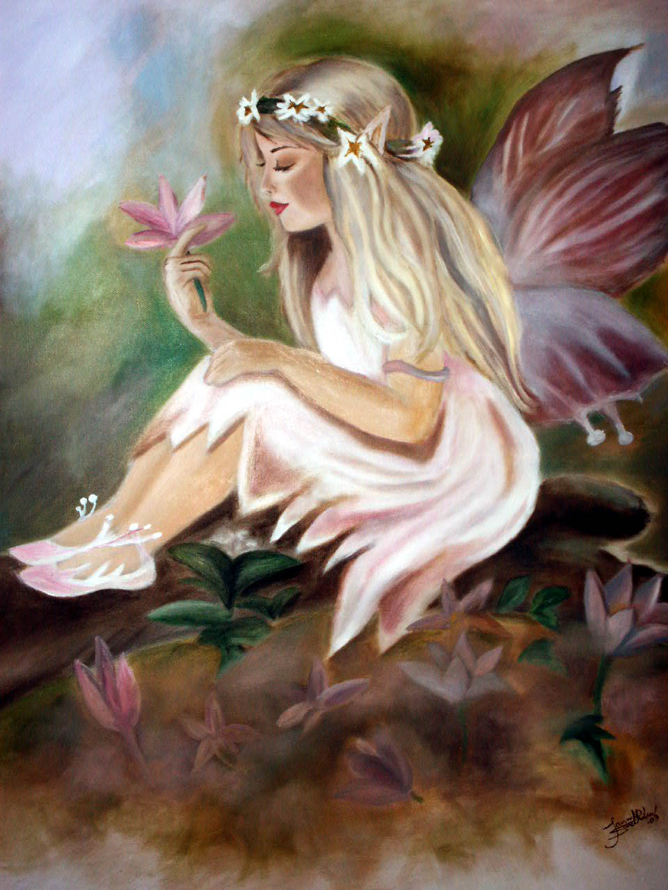 Fairy